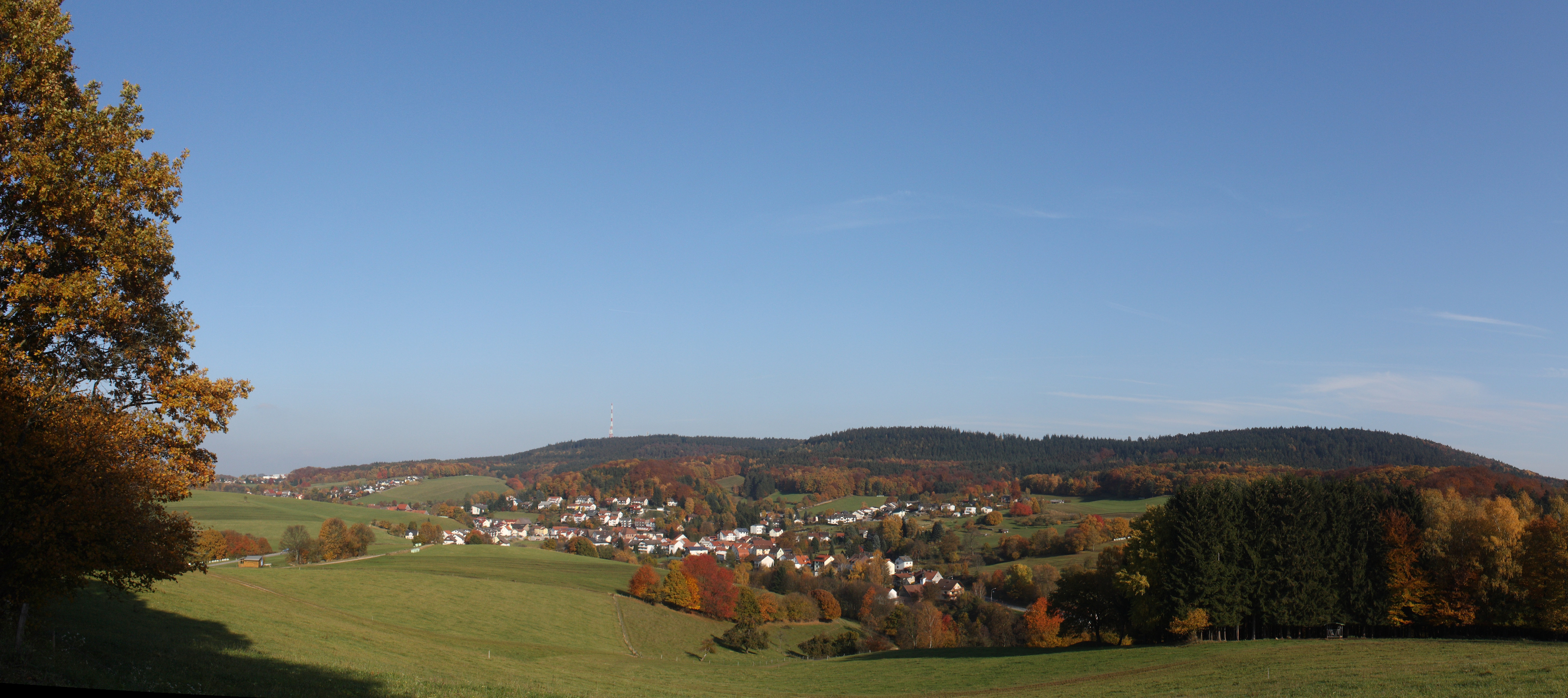 Panoramic view on Unter-Abtsteinach at falltime.